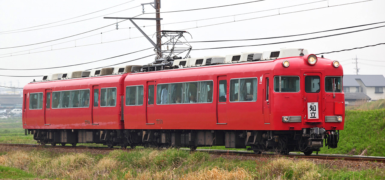 Meitetsu 7700 series EMU ( 7709F ), between Tsuchihashi Sta. and Takemura Sta.